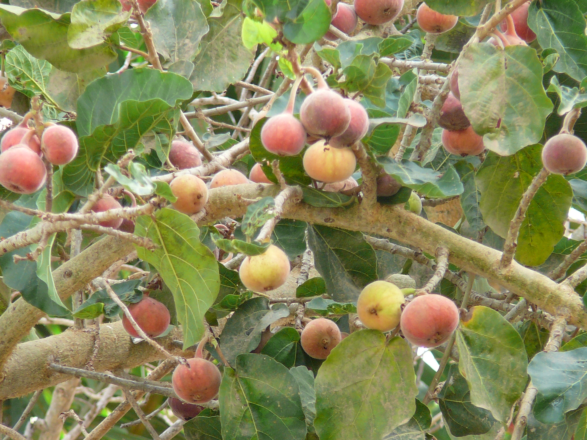 Sycamore Fig, fig-mulberry